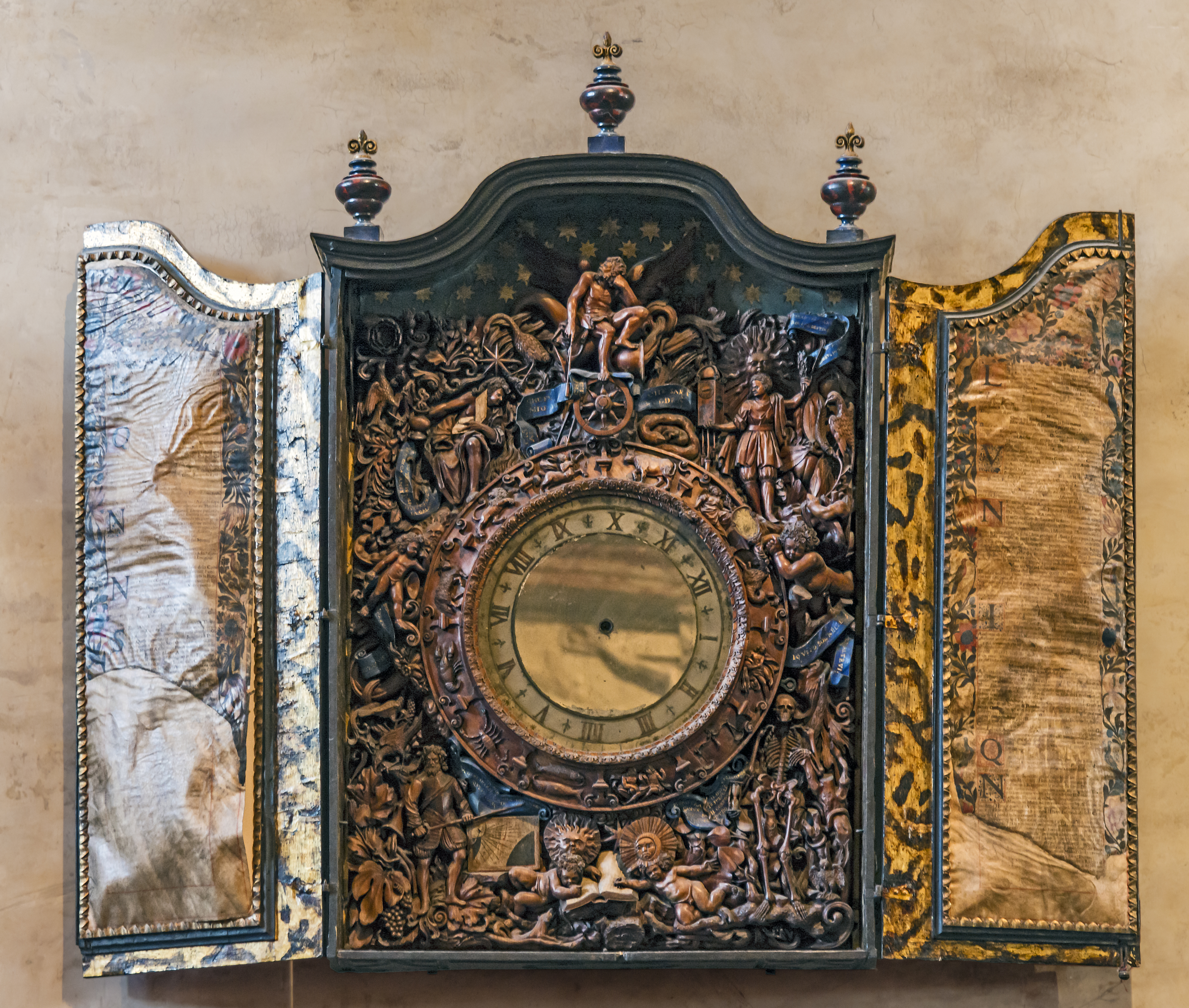 Santa Maria Gloriosa dei Frari, Sacristy - Clock seventeenth century by Stefano Panatta. The cherry dial was carved by Francesco Pianta. From both sides the two doors show a scroll explaining the sculptures.